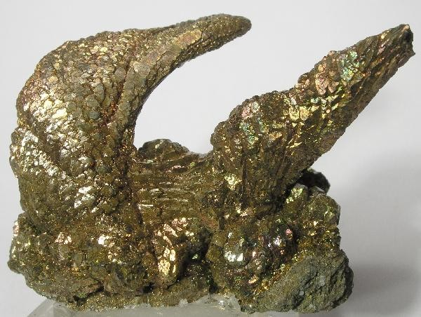 Marcasite Locality: Dachang Sn-polymetallic ore field, Nandan County, Hechi Prefecture, Guangxi Zhuang Autonomous Region, China (Locality at ) Size: 3.5 x 3 x 1.5 cm. A superb pair of Marcasite stalactites that looks like a pair of golden wings – the Marcasite has grown such that the surface has the layered appearance of feathers. The tip of the smaller stalactite even shows that it is hollow.